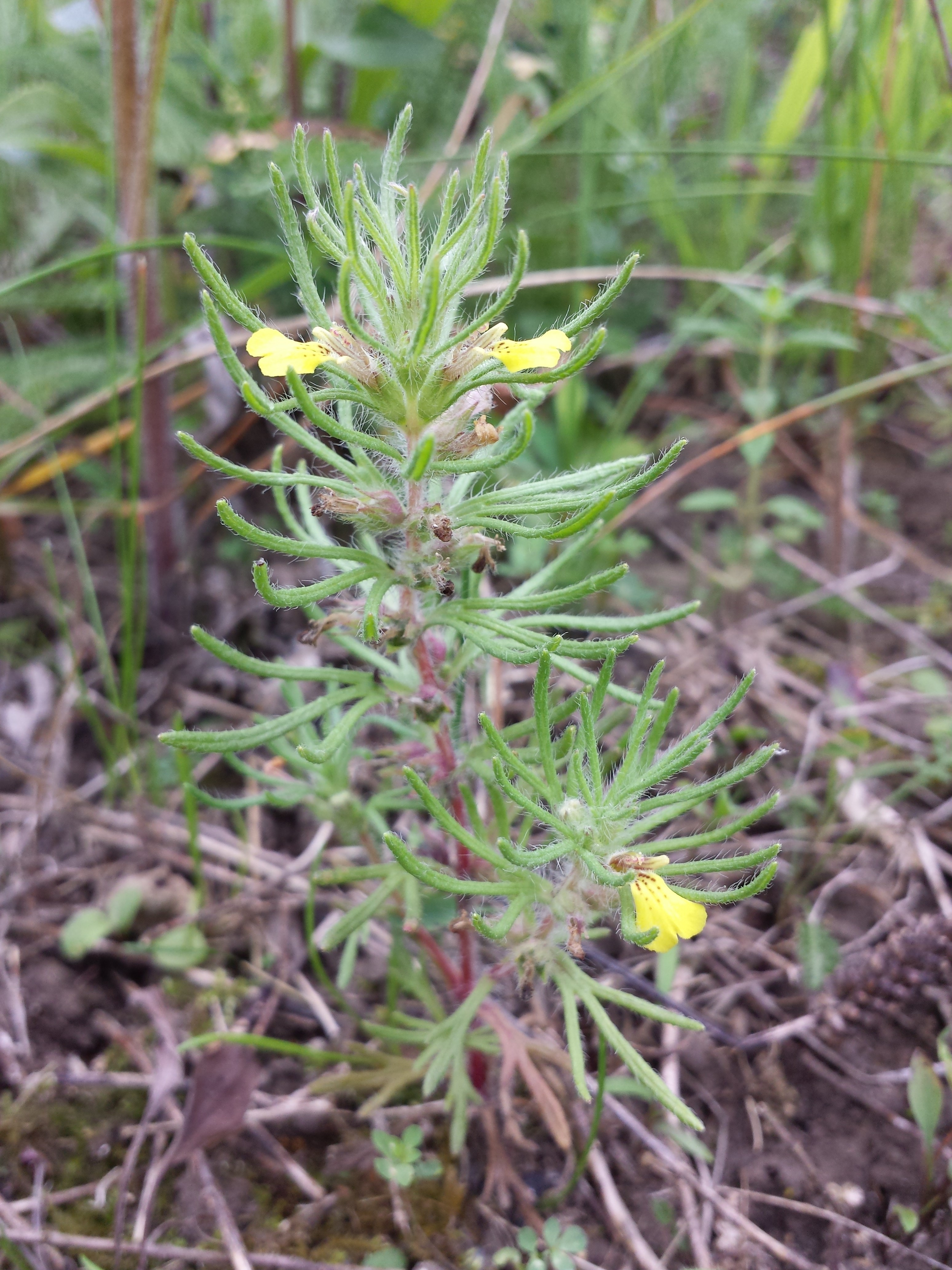 Habitus Taxon: Ajuga chamaepitys (sensu Fischer et al. EfÖLS 2008 ISBN 978-3-85474-187-9) Location: Wartberg near Ulrichskirchen, district Mistelbach, Lower Austria - ca. 200 m a.s.l. Habitat: fallow land